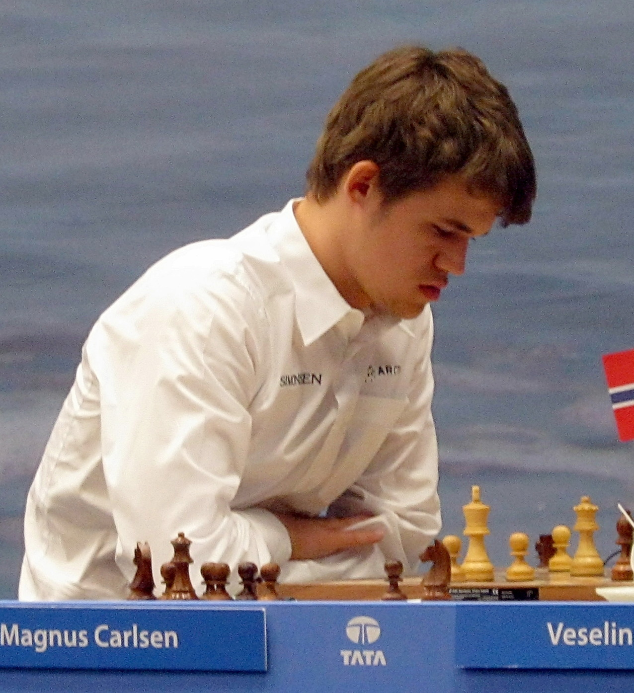 Magnus Carlsen, chess grandmaster from Norway